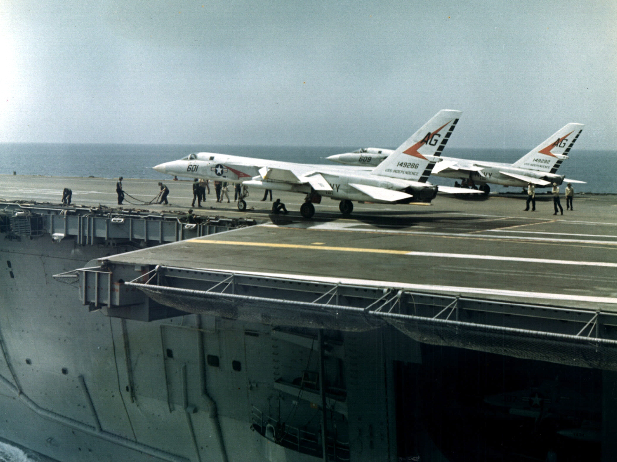 Two U.S. Navy North American A-5A Vigilante (BuNo 149286, 149292) of Heavy Attack Squadron VAH-1 "Smokin' Tigers" being readied for launching from the aircraft carrier USS Saratoga (CVA-60) during operation "Long Horn". VAH-1 was assigned to Carrier Air Wing 7 (CVW-7) aboard the USS Independence (CVA-62).